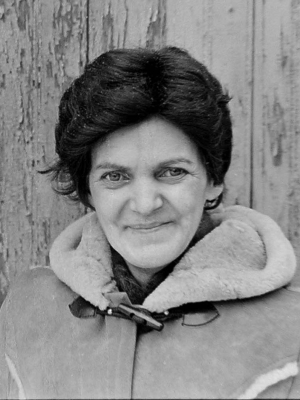 Françoise Bujold hiver 1978